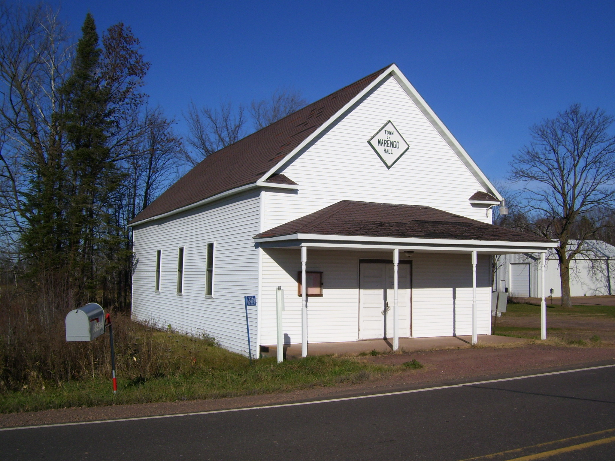 A photograph of the Town Hall of Marengo, Wisconsin.